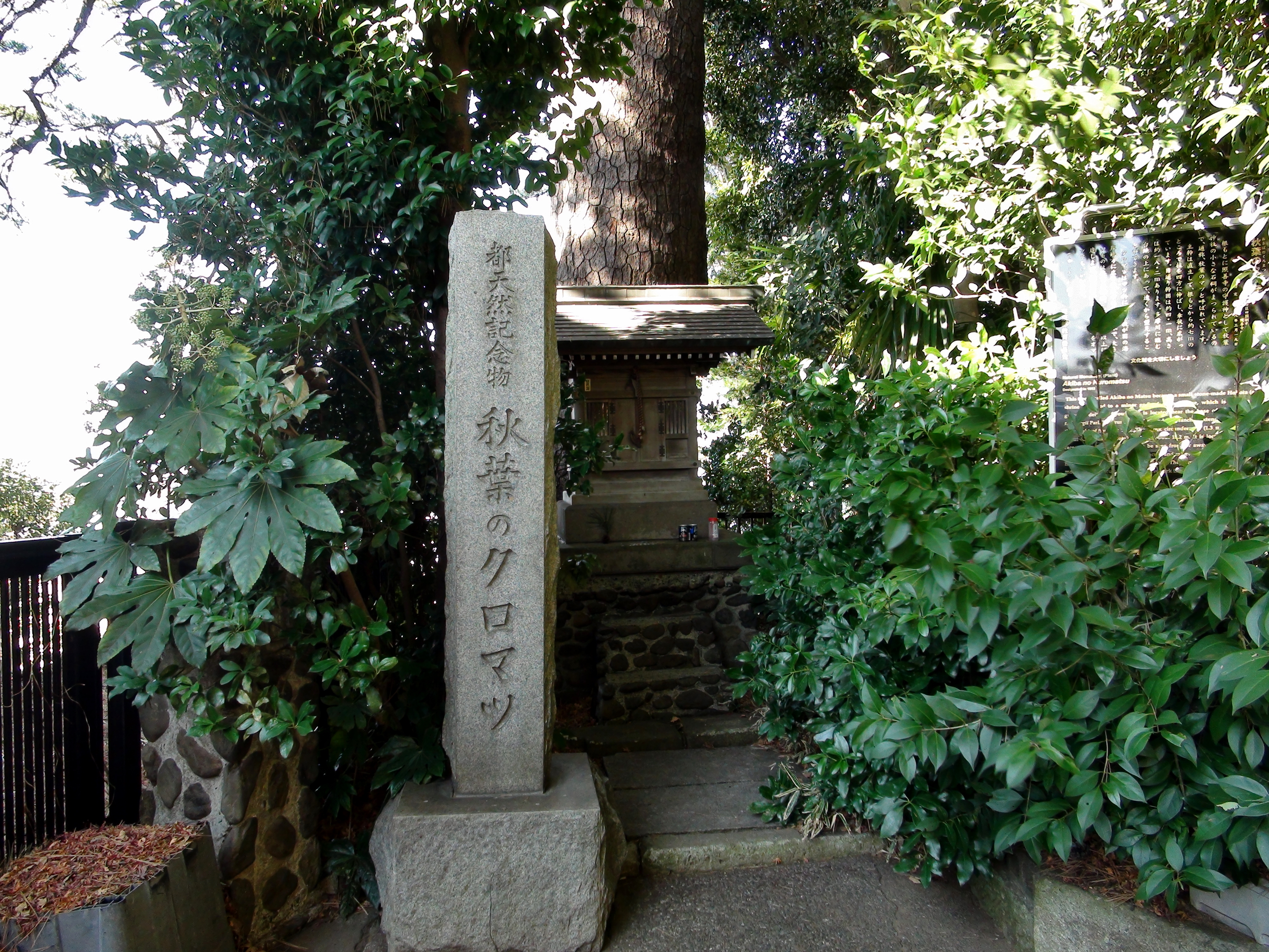 Stele for the Akiba no Kuromatsu (Black Pine of Akiba) in Ota Ward, Tokyo, Japan